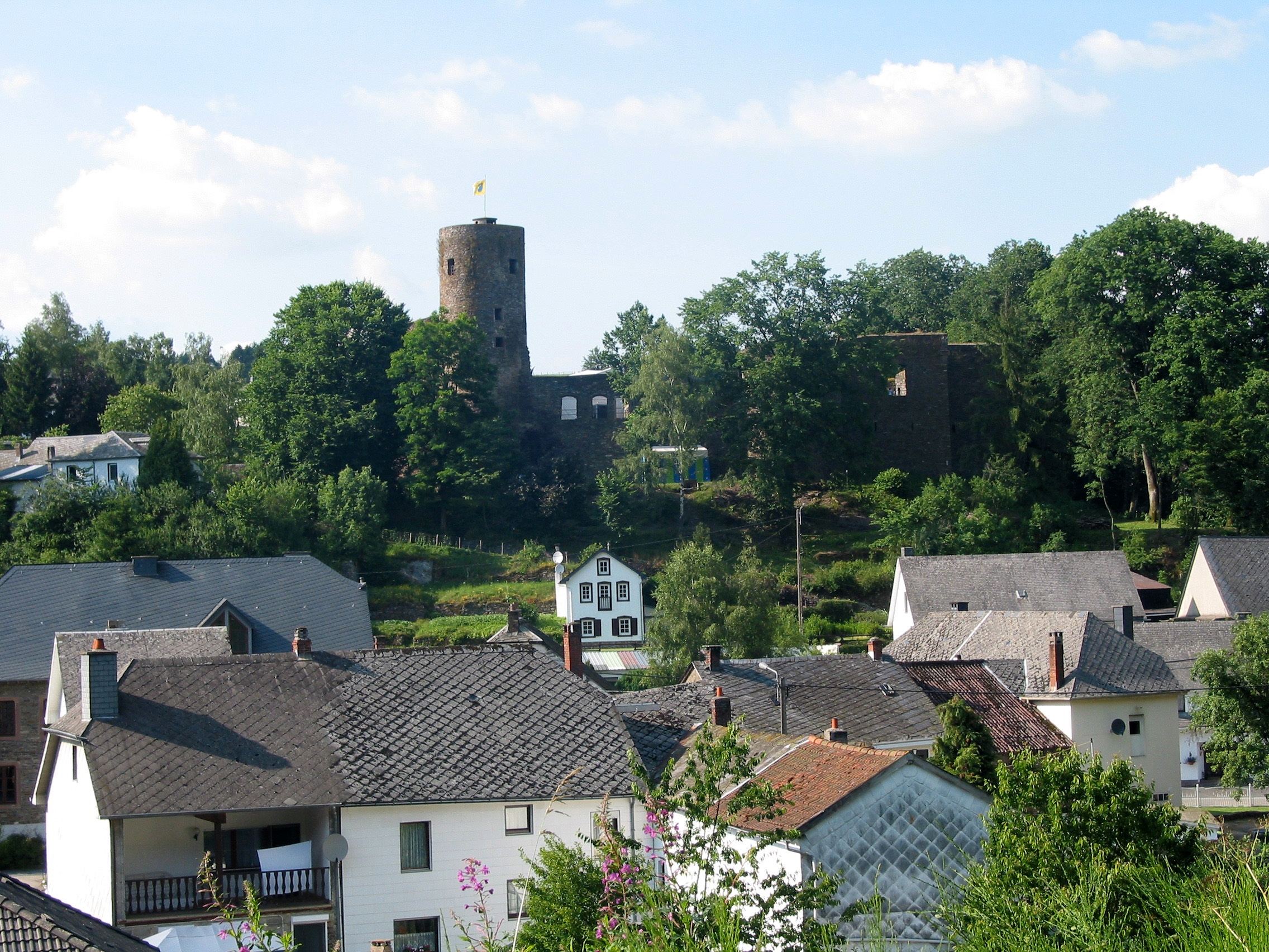 Burg-Reuland (Belgium), the village and the old fortified castle (XIII - XIVth centuries).